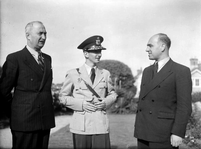 King Peter II with two of his ministers, the Prime Minister of Yugoslavia, General Simovic (left) and Court Minister M Knezevic arriving in England.